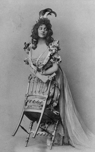 Russian actress Lydia Yavorskaya